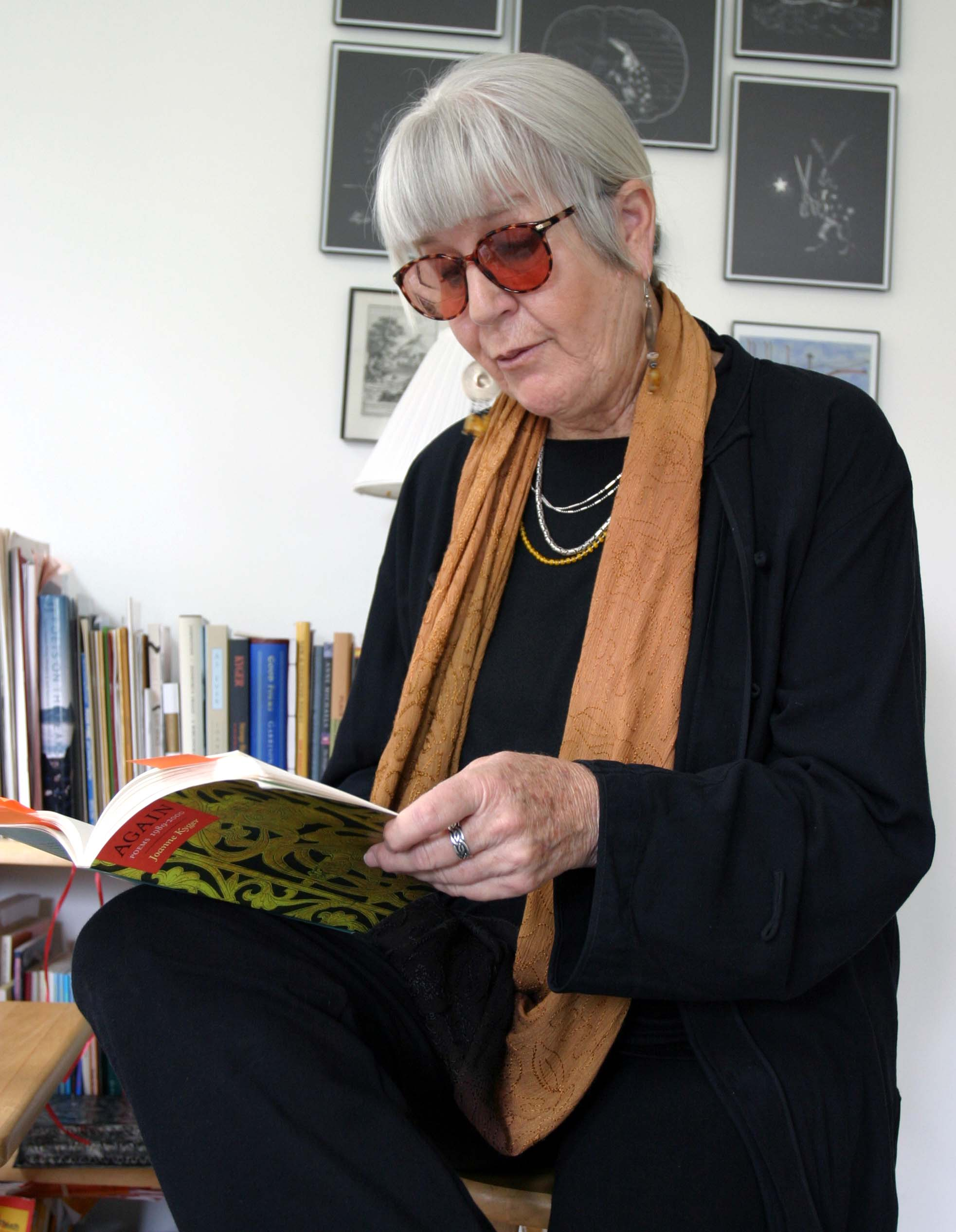 Joanne Kyger, photograph by Gloria Graham, taken during the video taping of Add-Verse, 2004